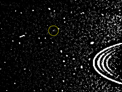 The satellite Mab is indicated by the circle in the image.